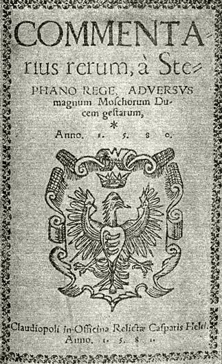 Book of Pál Gyulai from 1580